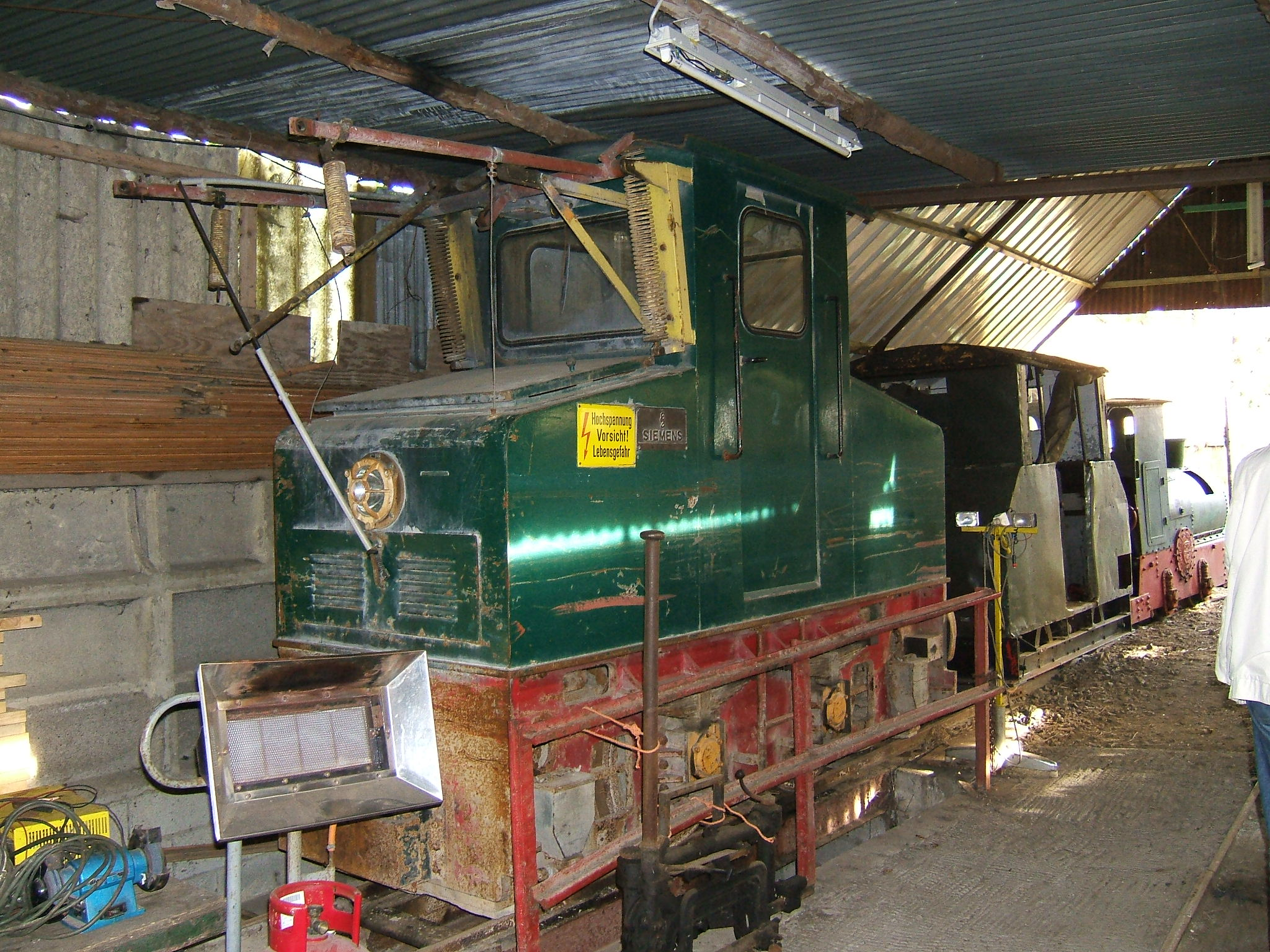 At the "Chemin de Fer de Sprimont", Liége province, Belgium. This 600mm gauge museum operation specializes in industrial and mining railways.